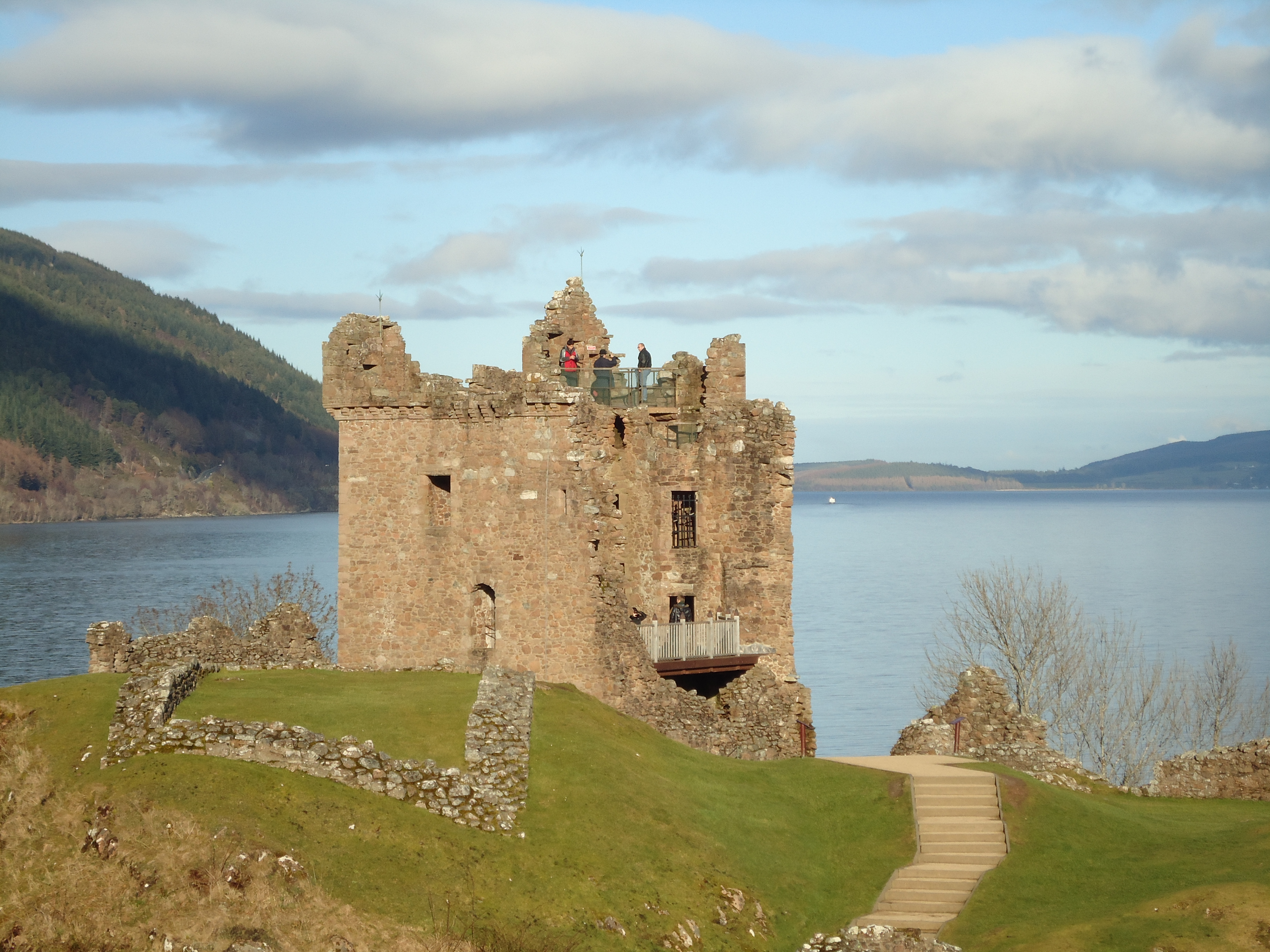 Urquarth castle, Loch Ness